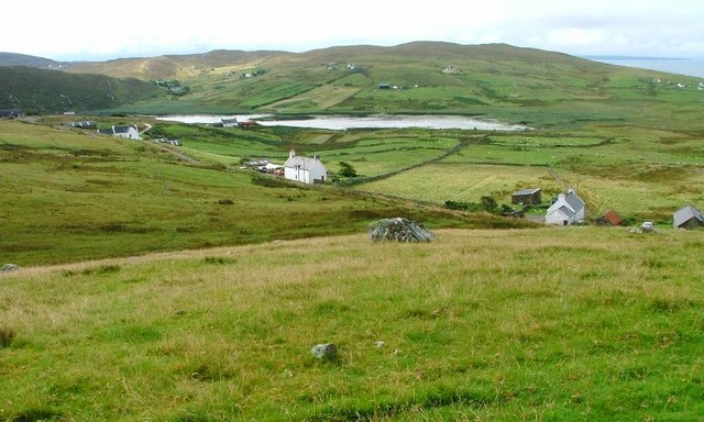 Clashmore. A small hamlet overlooking Loch na Claise. The township was established in the 1870s by the Sutherland Estate as a model village when much emphasis was had into 'improving' barren land. This only lasted ten years or so when the crofters rebelled against the landlords and many cottages were burned.